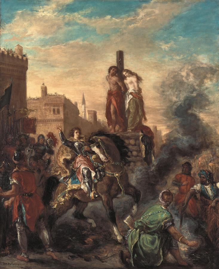 A scene from Torquato Tasso’s epic poem Jerusalem Delivered